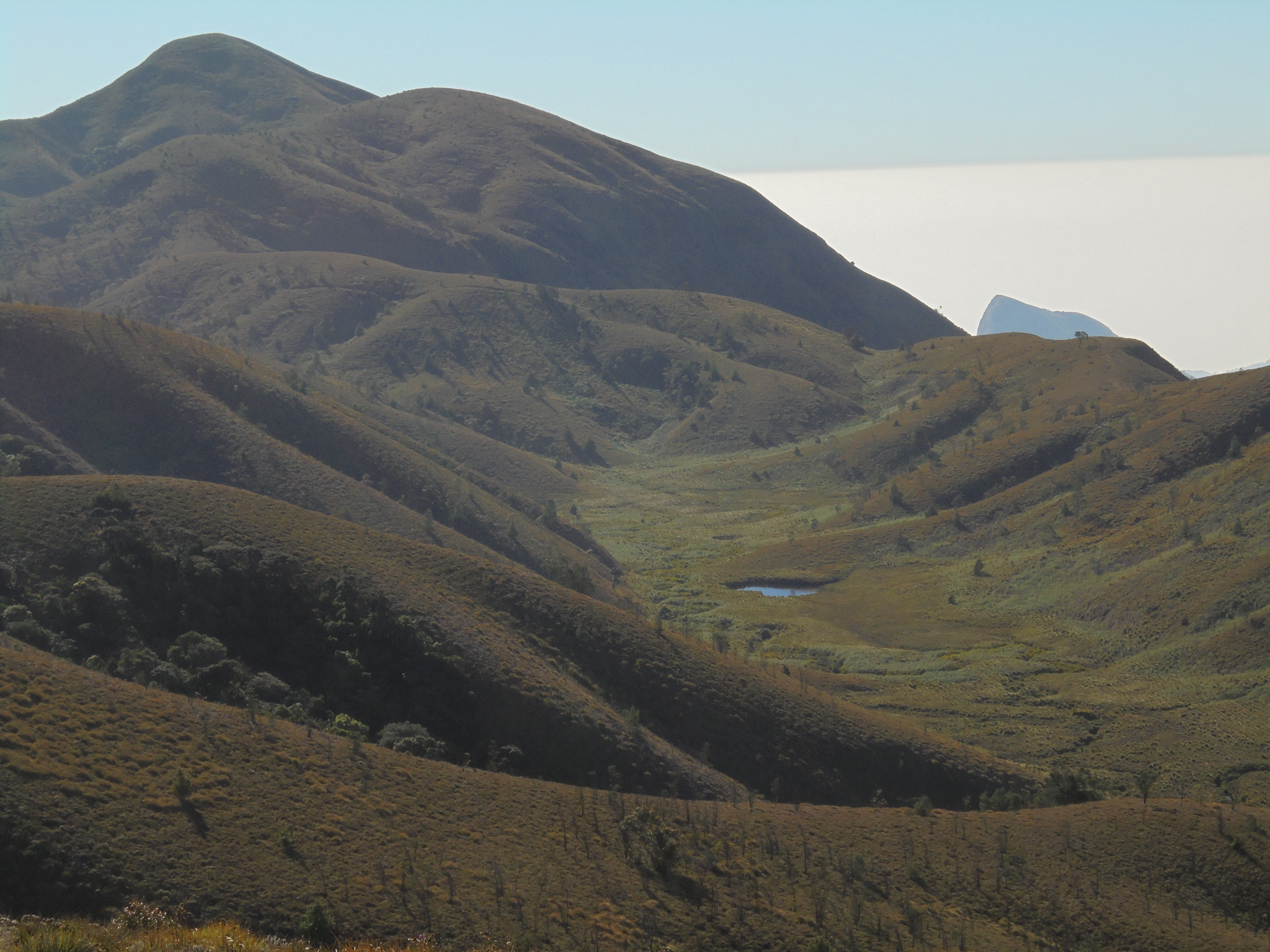 Meesapulimala